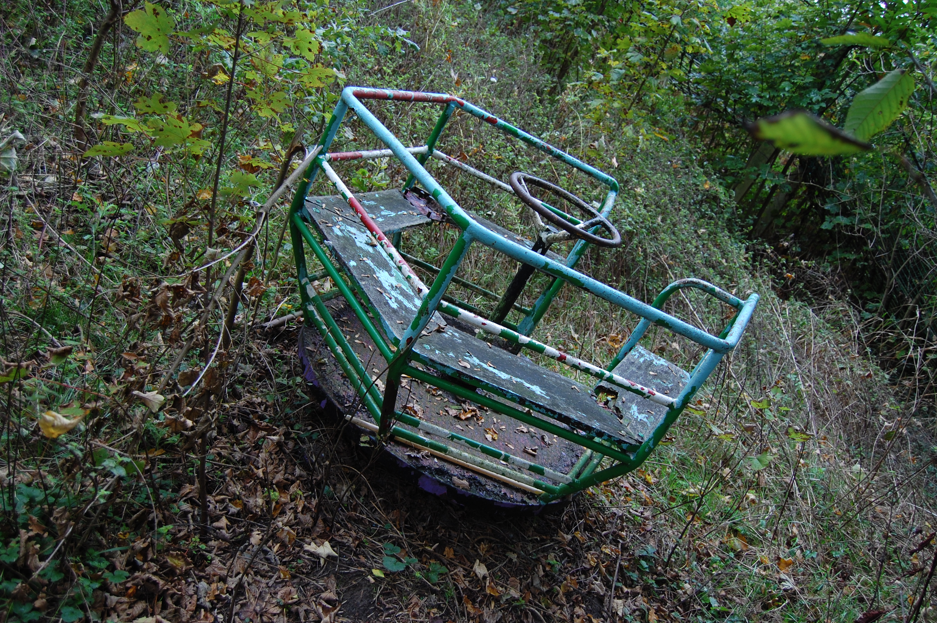 Picture in the abandoned theme-park Dadipark